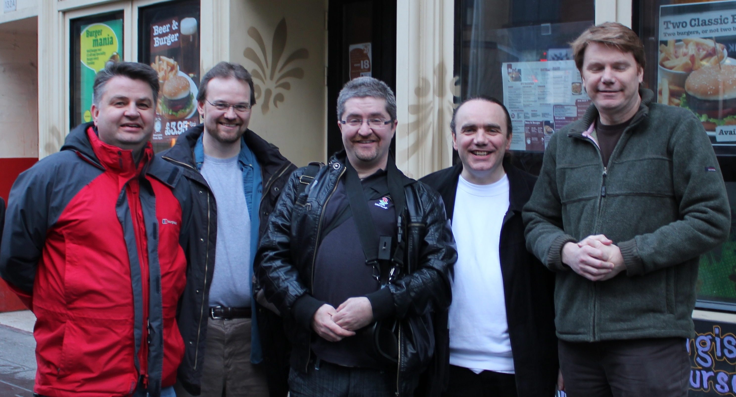 The computer game Lemmings had its 20th anniversary on Feb 14th, 2011. Dundee's Lord Provost turned up for the unveiling of a plaque along with the original DMA Design members. From left to right: Lord Provost John Letford, Russell Kay, Mike Dailly, Steve Hammond, Gary Timmons, Dave Jones.